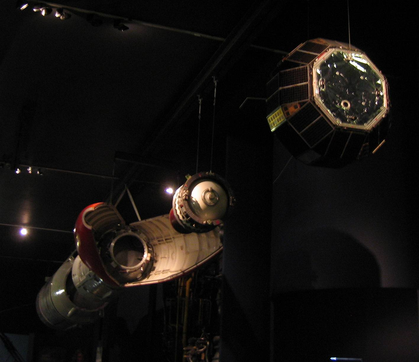 Black Arrow launch vehicle deploying the W:Prospero X-3 satellite. On display at the Science Museum, London